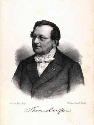 Thomas Overskou (1798-1863), Danish theatre actor, theatre historian, and playwright